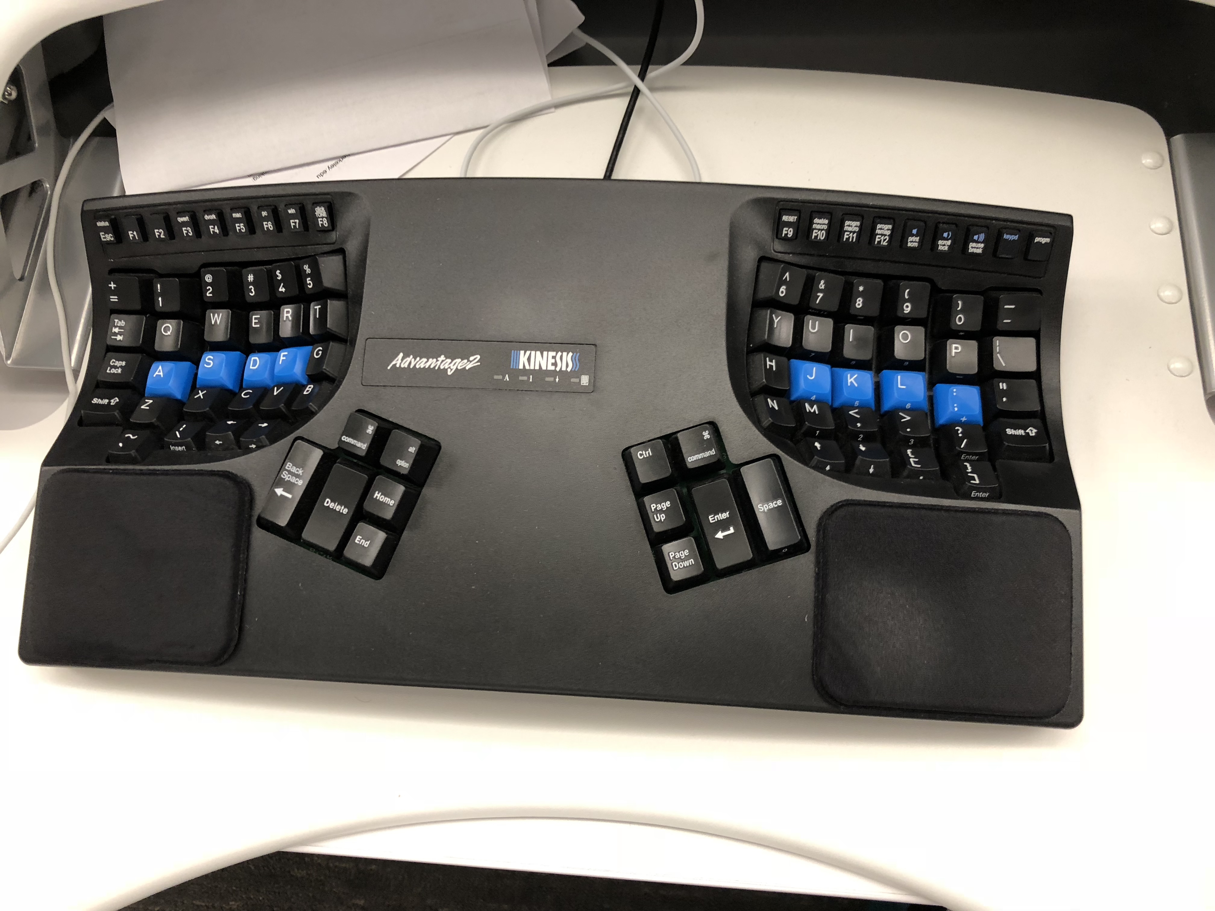 Kinesis Advantage 2 ergonomic computer keyboard.